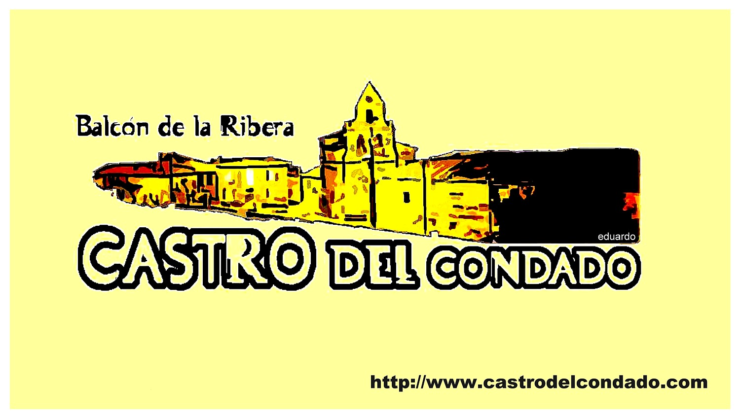 Logotipo,de Castro del Condado (Eduardo Miguel Delgado)